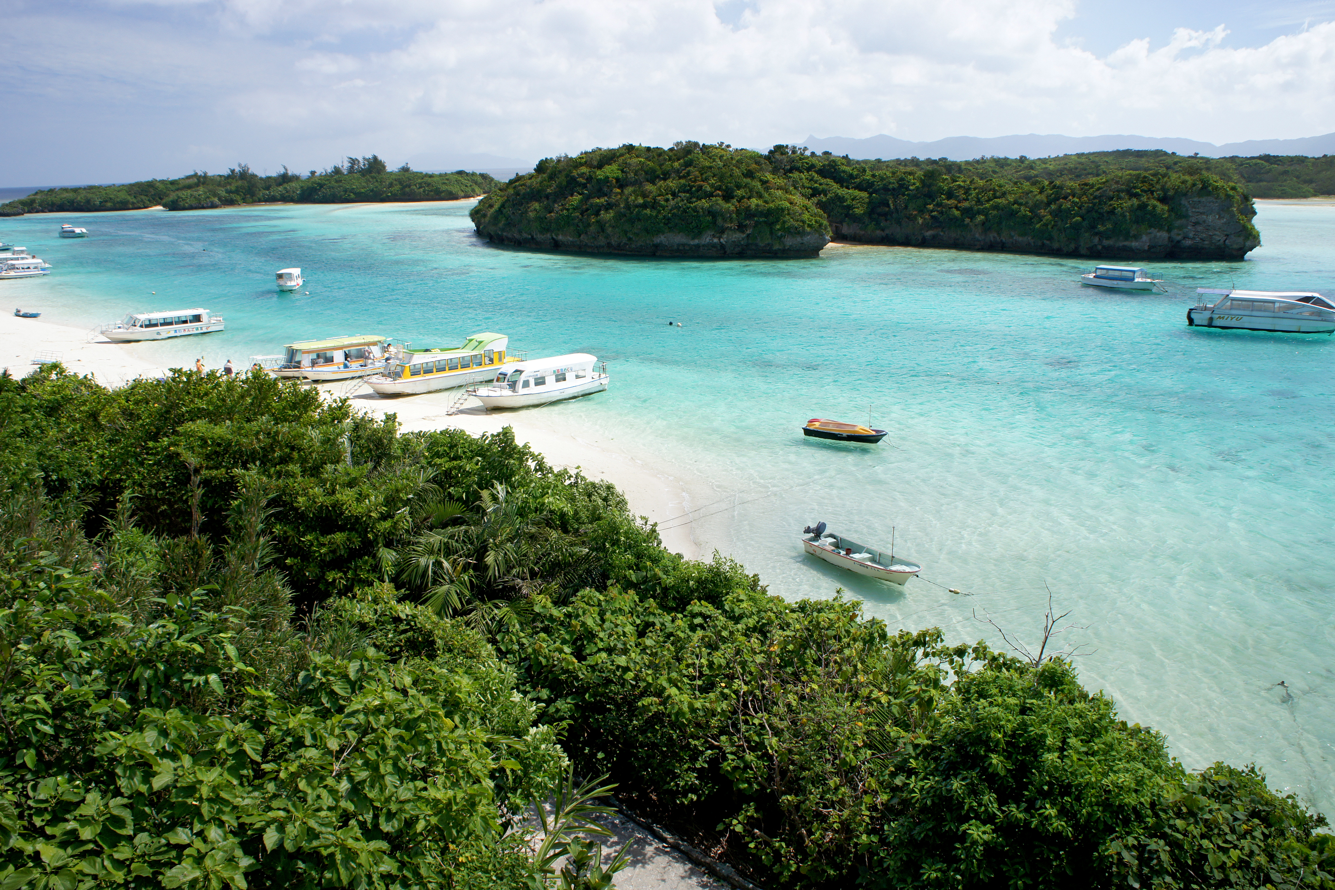 Kabira Bay of Ishigaki Island in Ishigaki City, Okinawa Prefecture, Japan. It is one of the Japan's Places of Scenic Beauty.